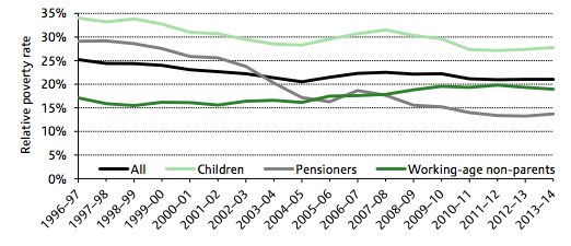 Relative poverty rates (After Housing Costs) in the UK, 1996-2014, by family type